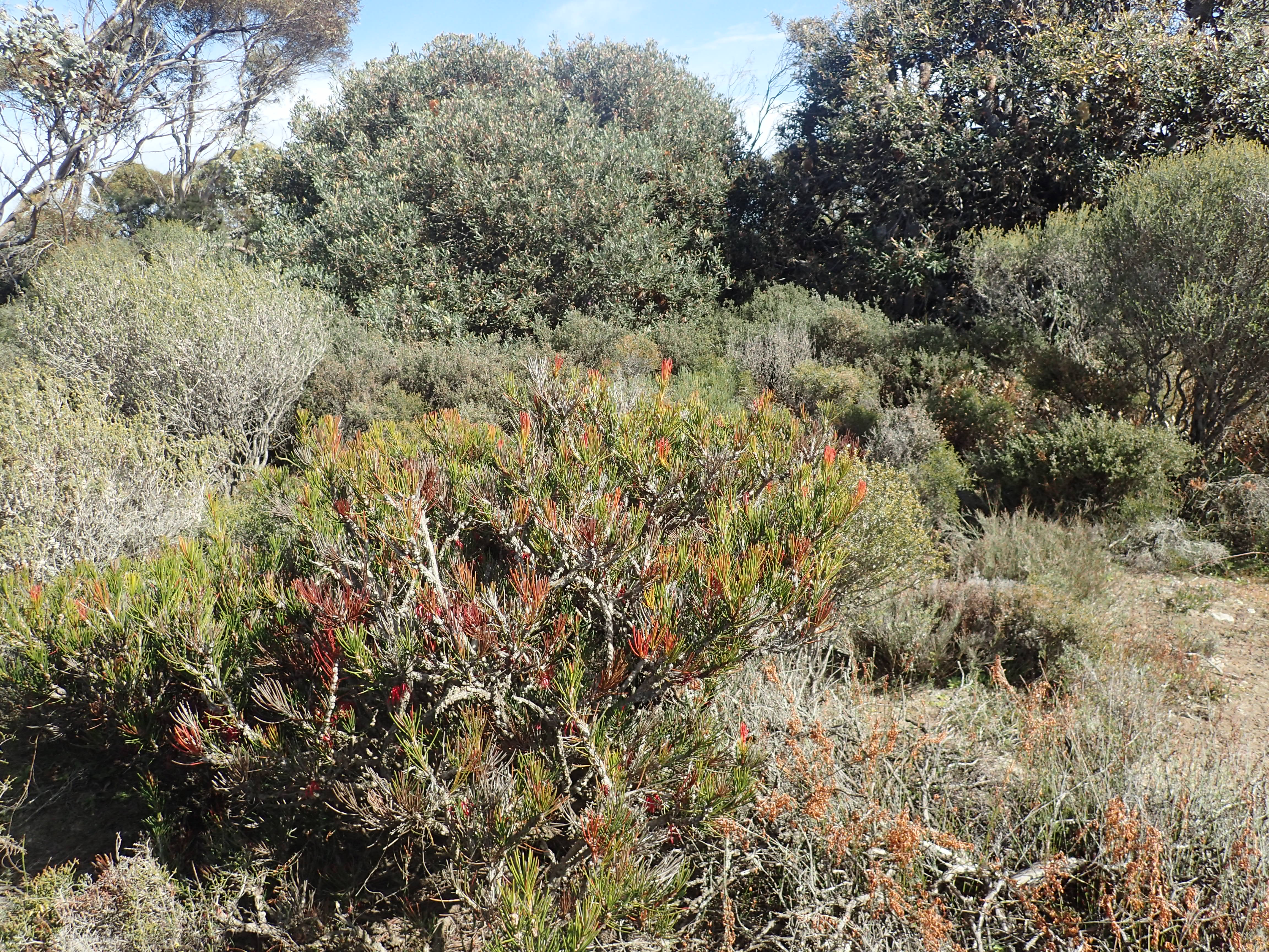 Calothamnus gibbosus growing 5.6km north along West Point Road near Ravensthorpe